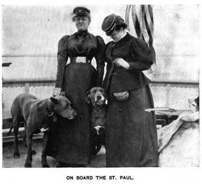 "Two Women in the Klondike: The Story of a Journey to the Gold-fields of Alaska" (1899), By Mary Evelyn Hitchcock